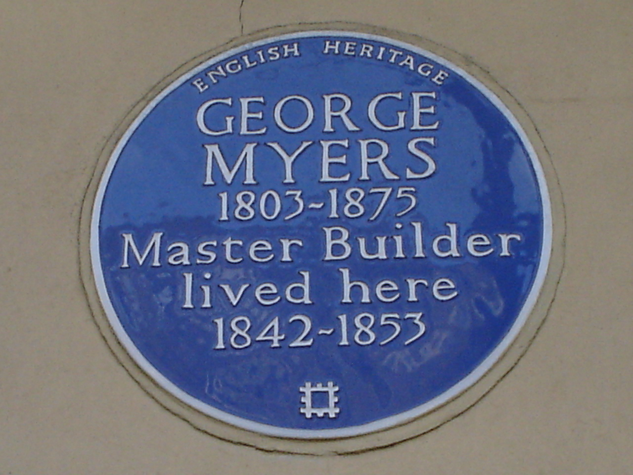 Blue plaque to George Myers (builder) 1803-1875 at 131 St George's Road, London SE1 This image represents an Open Plaques entry #5268.